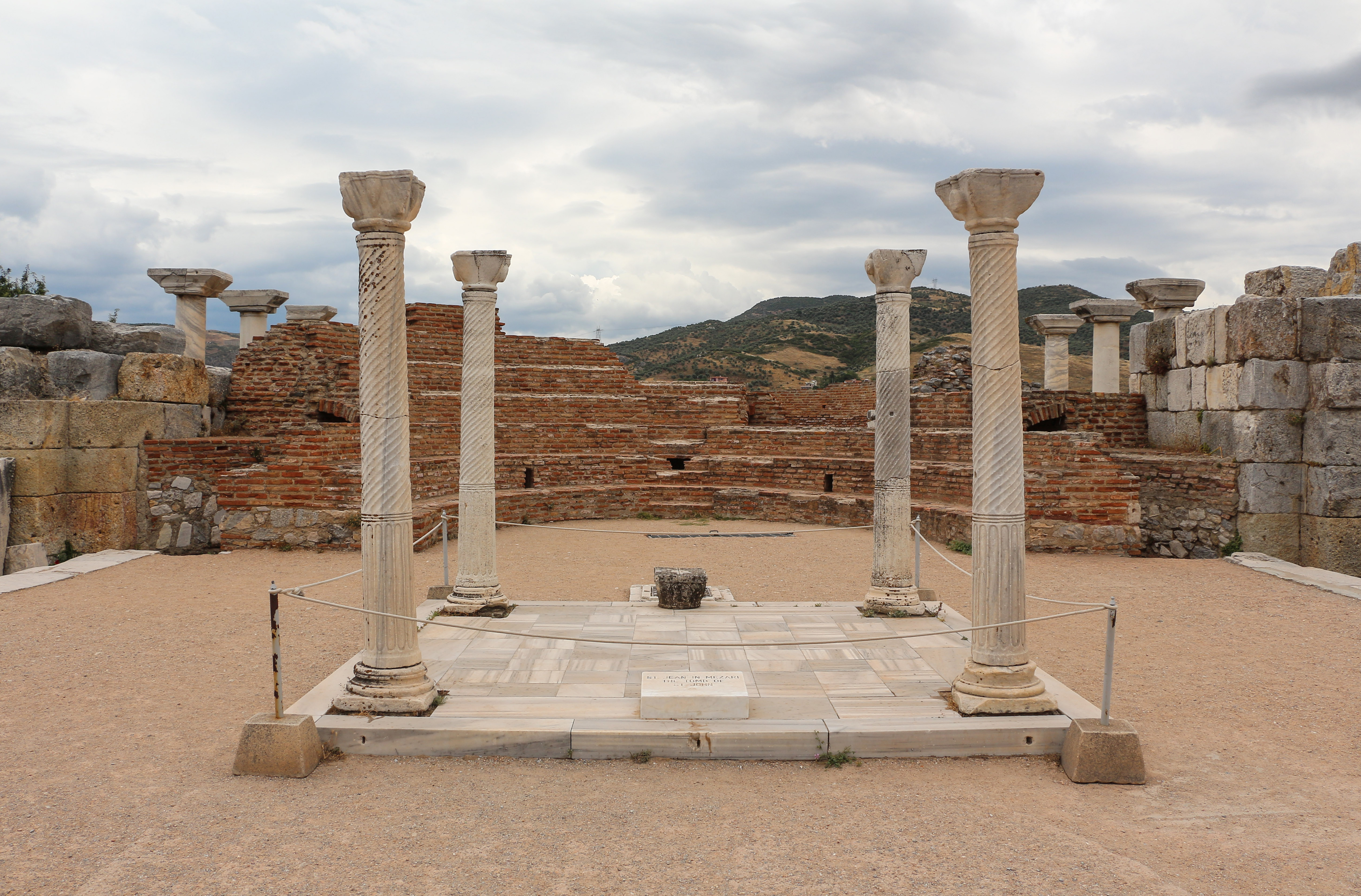 The tomb of St. John the Apostle in the Basilica of St. John, Ephesus, Turkey